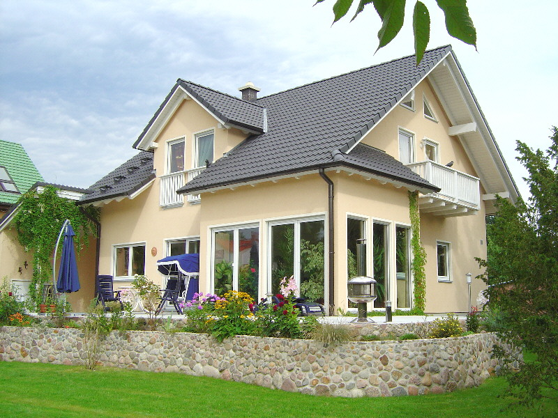 A prefabricated house in Bergfelde, Germany. Built in 2002 by the German Haas-Fertigbau GmbH. Photo taken by the owner, Andreas Koll in 2005.